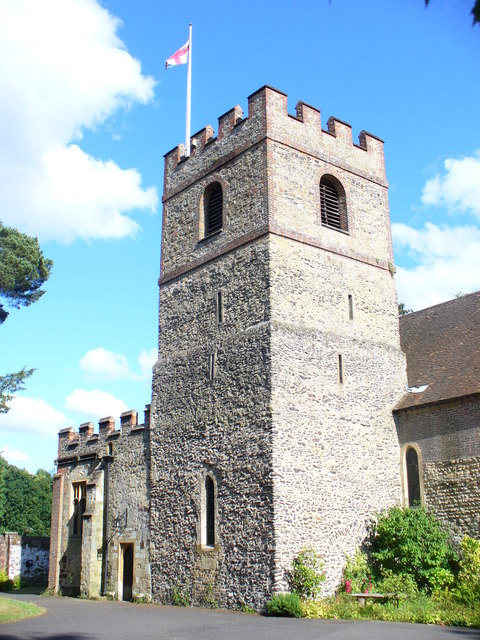 St John the Baptist, Wonersh The parish church has Norman work at its base and 18th century stonework at its top.